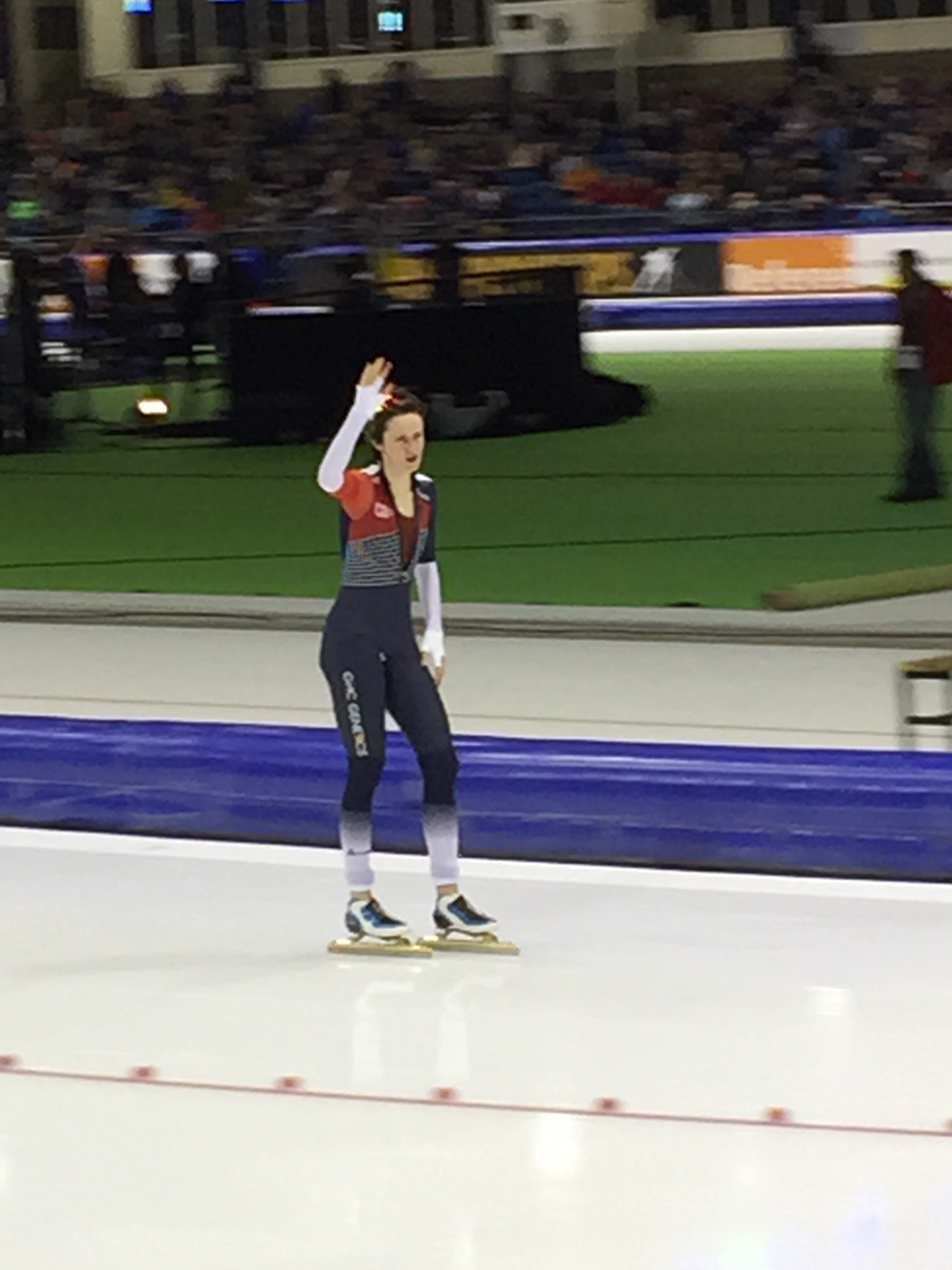 2015 World Single Distance Speed Skating Championships, Women's 5000m (